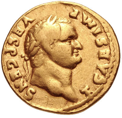 Изображение Тита на золотом ауреусе с сайта